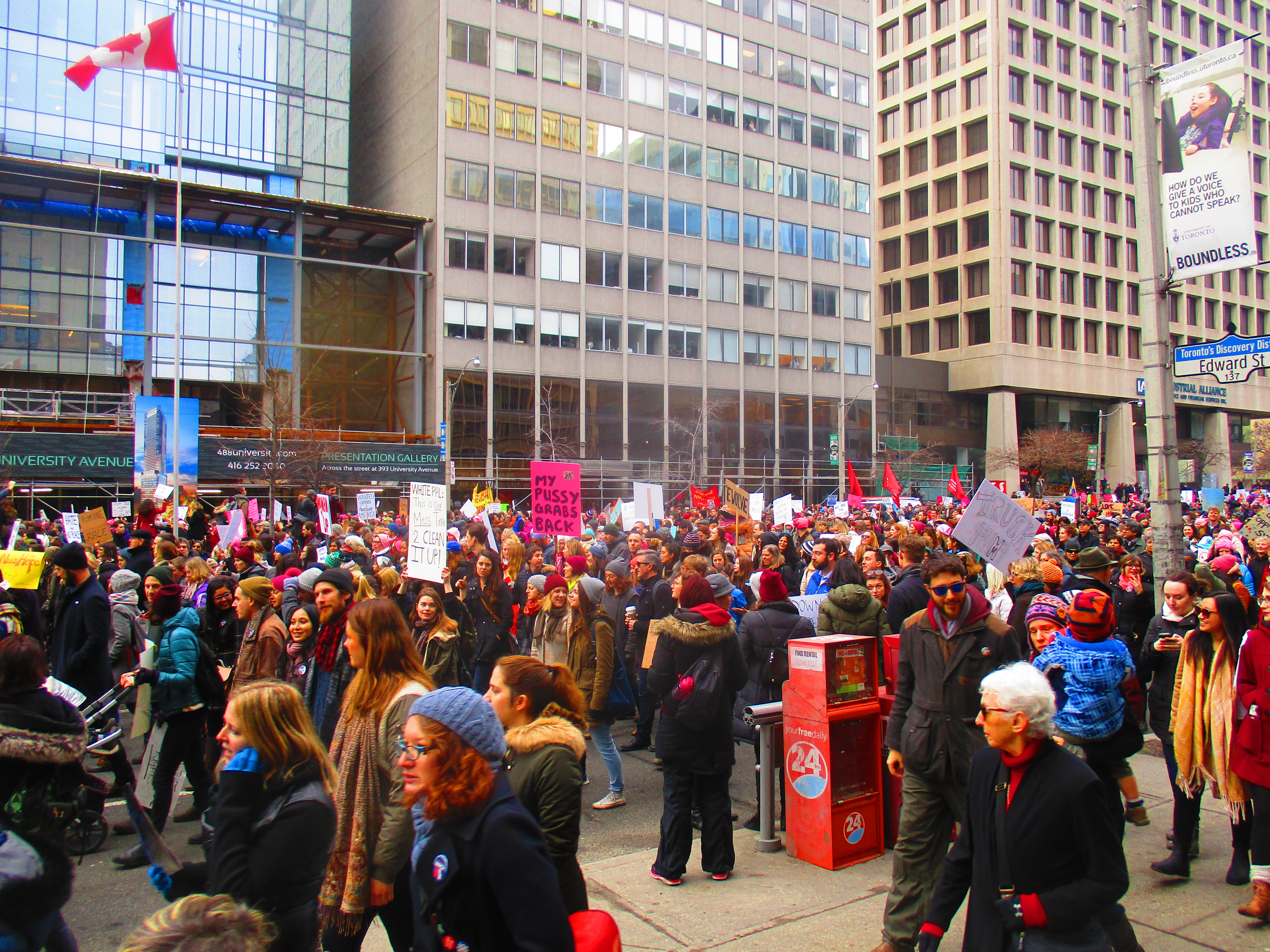 Women's march to denounce Donald Trump, in Toronto, 2017 01 21 -cs